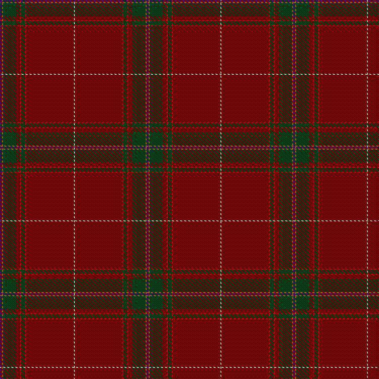 For the Clan Carruthers page, A Tartan designed by Brian Wiltonm based on the thread count and sett of Clan Bruce and registered with the Scottish Tartan Register, commissioned and paid for, for use by all Carruthers and derivatives of the name. There is no Copyright not freely given.